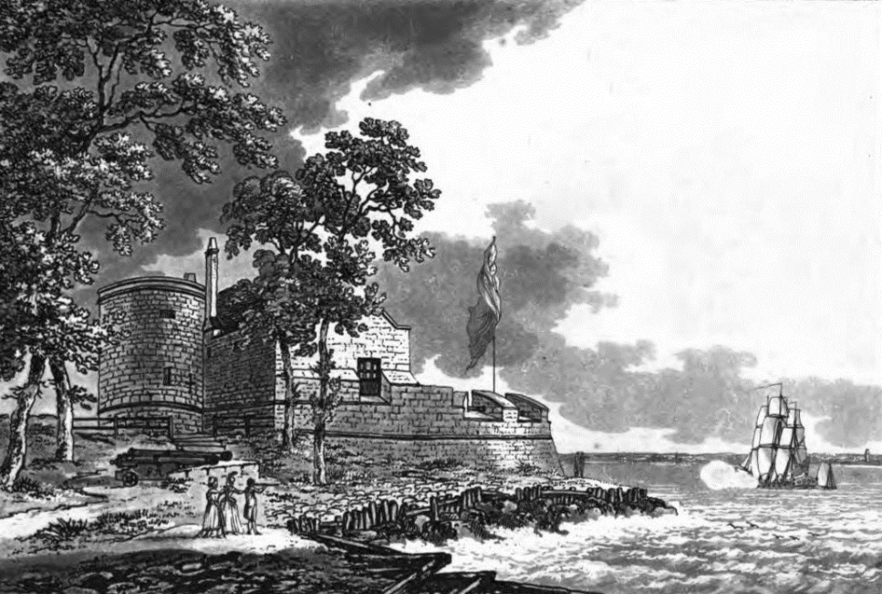 West Cowes Castle, 1796